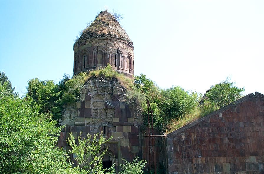 Khoranashat Monastery, Tavush Marz, Northern Armenia.